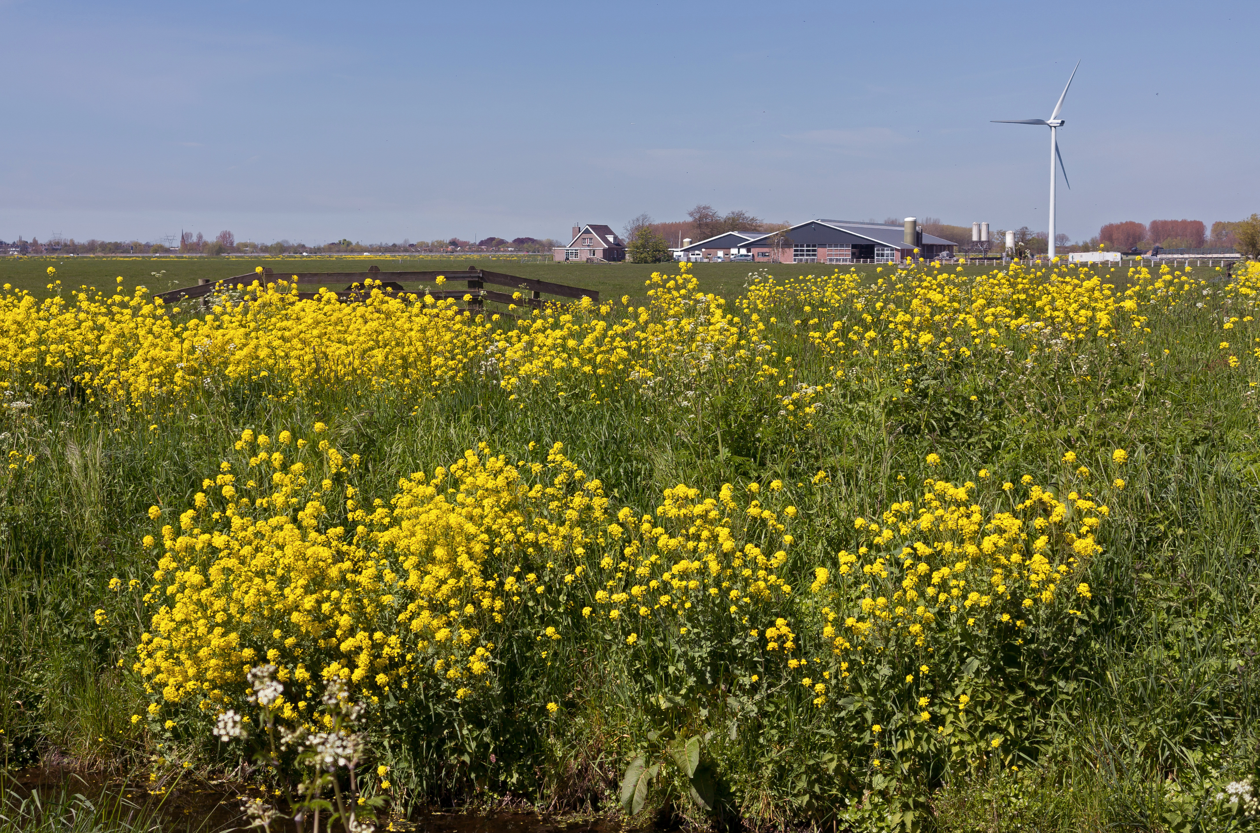 between Hazerswoude Dorp and Alphen aan den Rijn, panorama